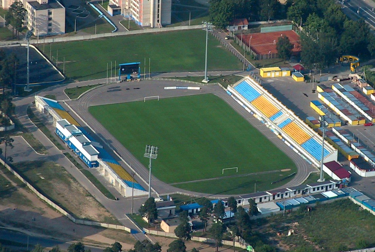 Air view to Haradzki Stadium